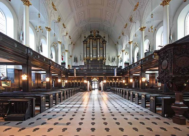 St Clement Danes, Strand, London WC2 - West end